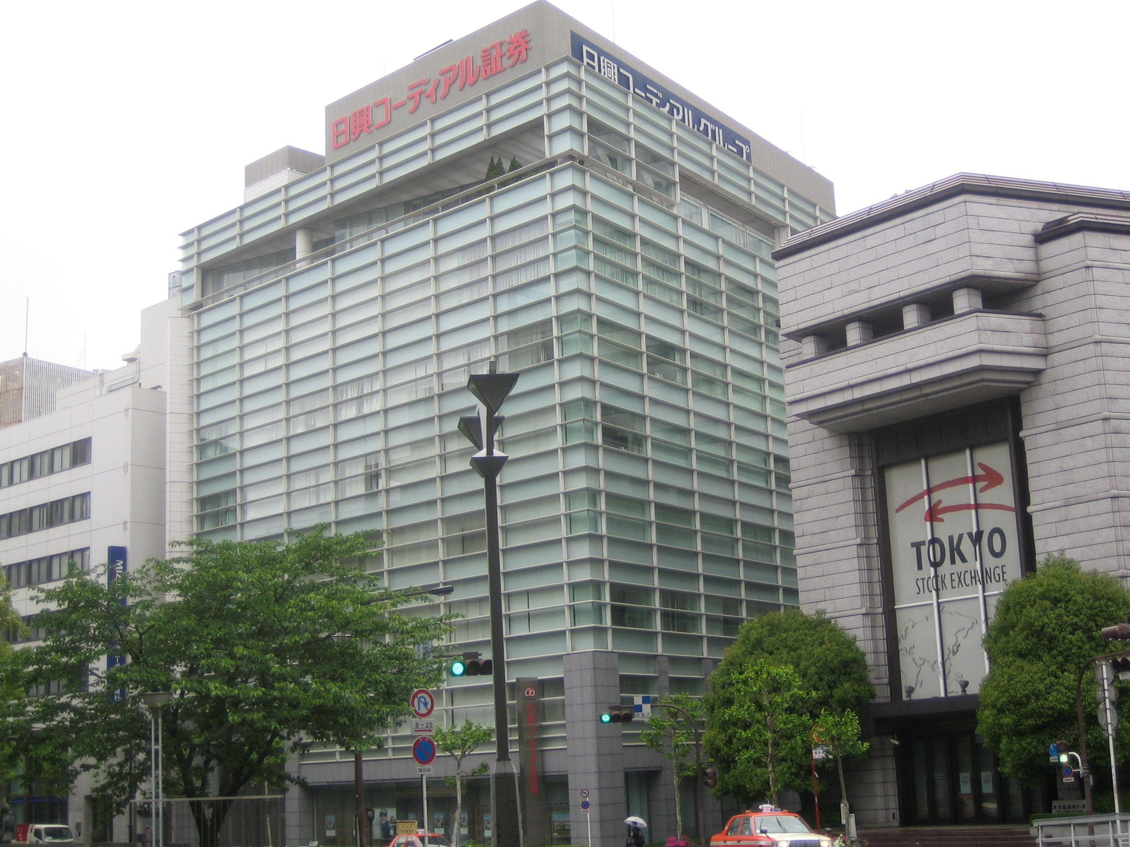 Nikko Cordial Corporation (日興コーディアルグループ), in , Tokyo, Japan